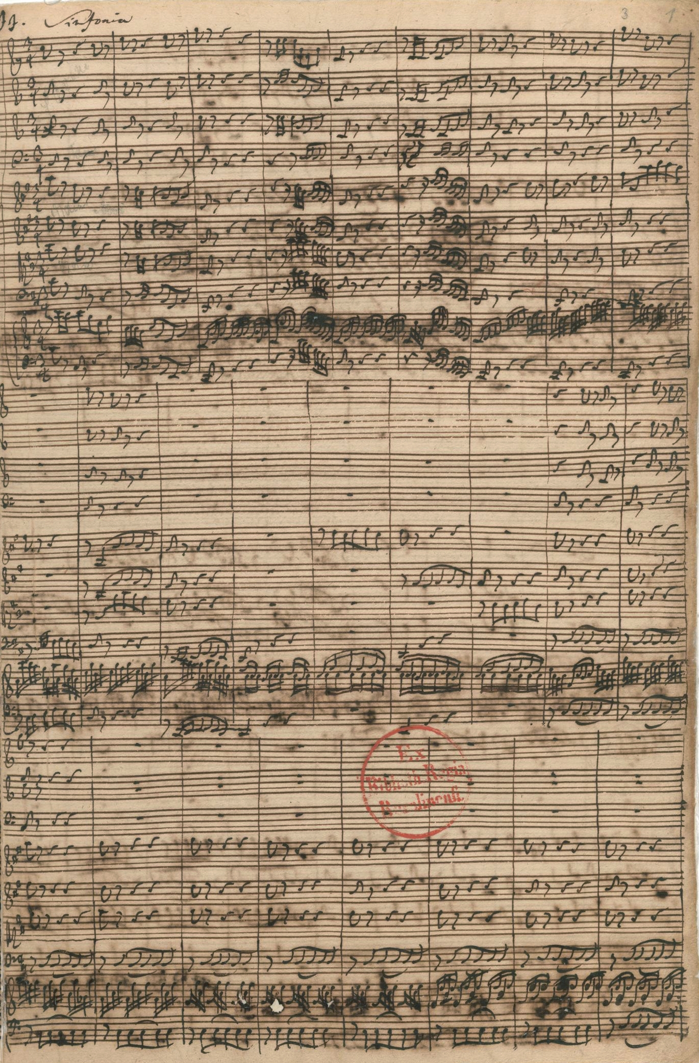 A page from the autograph manuscript of the cantata "Wir danken dir, Gott, wir danken dir", BWV 29, by Johann Sebastian Bach. The 1st page of the manuscript (Sinfonia - Presto). Original preserved in Staatsbibliothek zu Berlin, Preussischer Kulturbesitz, Mus. ms. Bach P 166. Original size 35,5x22,5 cm.